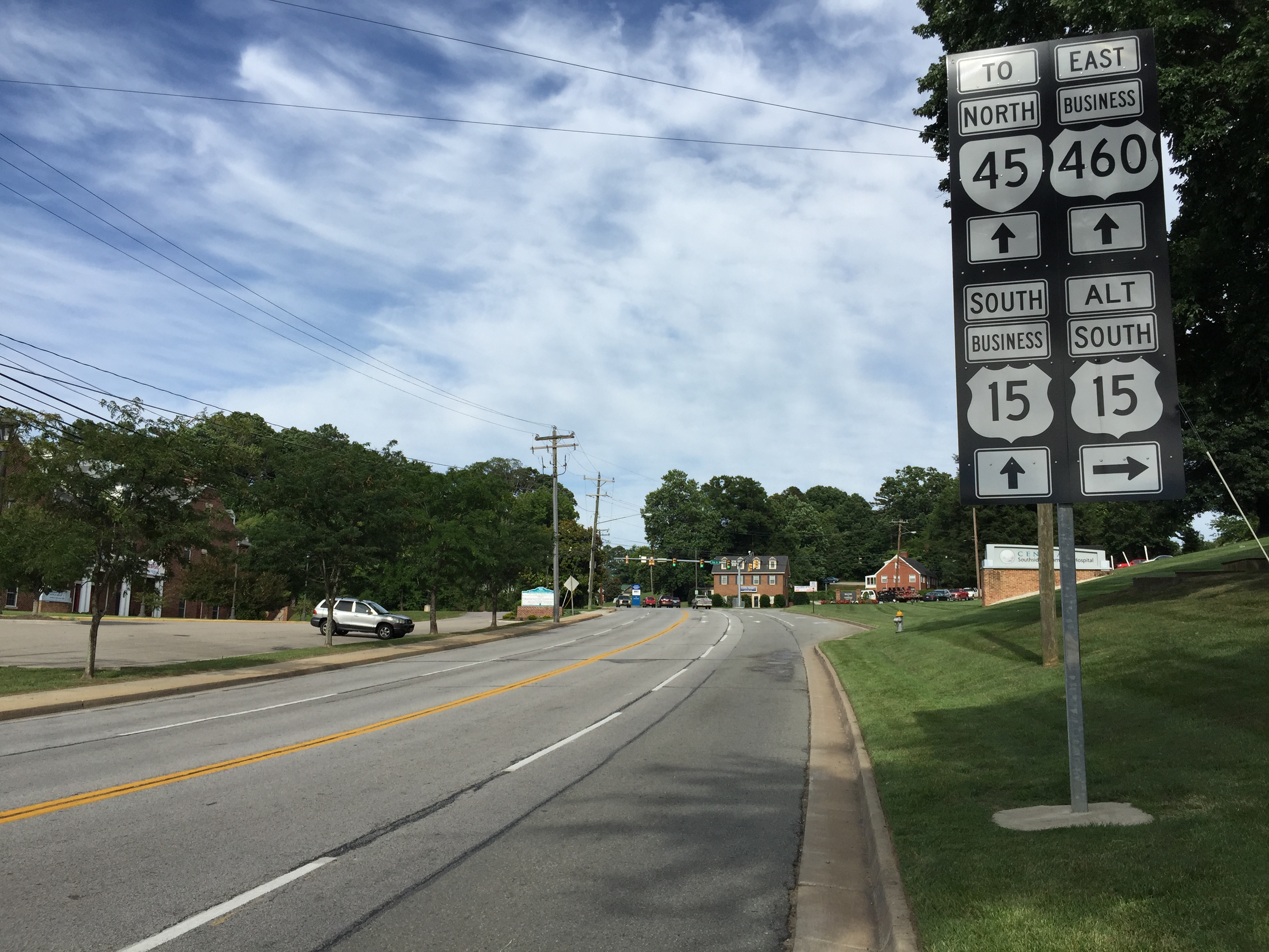 View south along U.S. Route 15 Business and east along U.S. Route 460 Business (Third Street) just northwest of U.S. Route 15 Alternate (Oak Street) in Farmville, Prince Edward County, Virginia